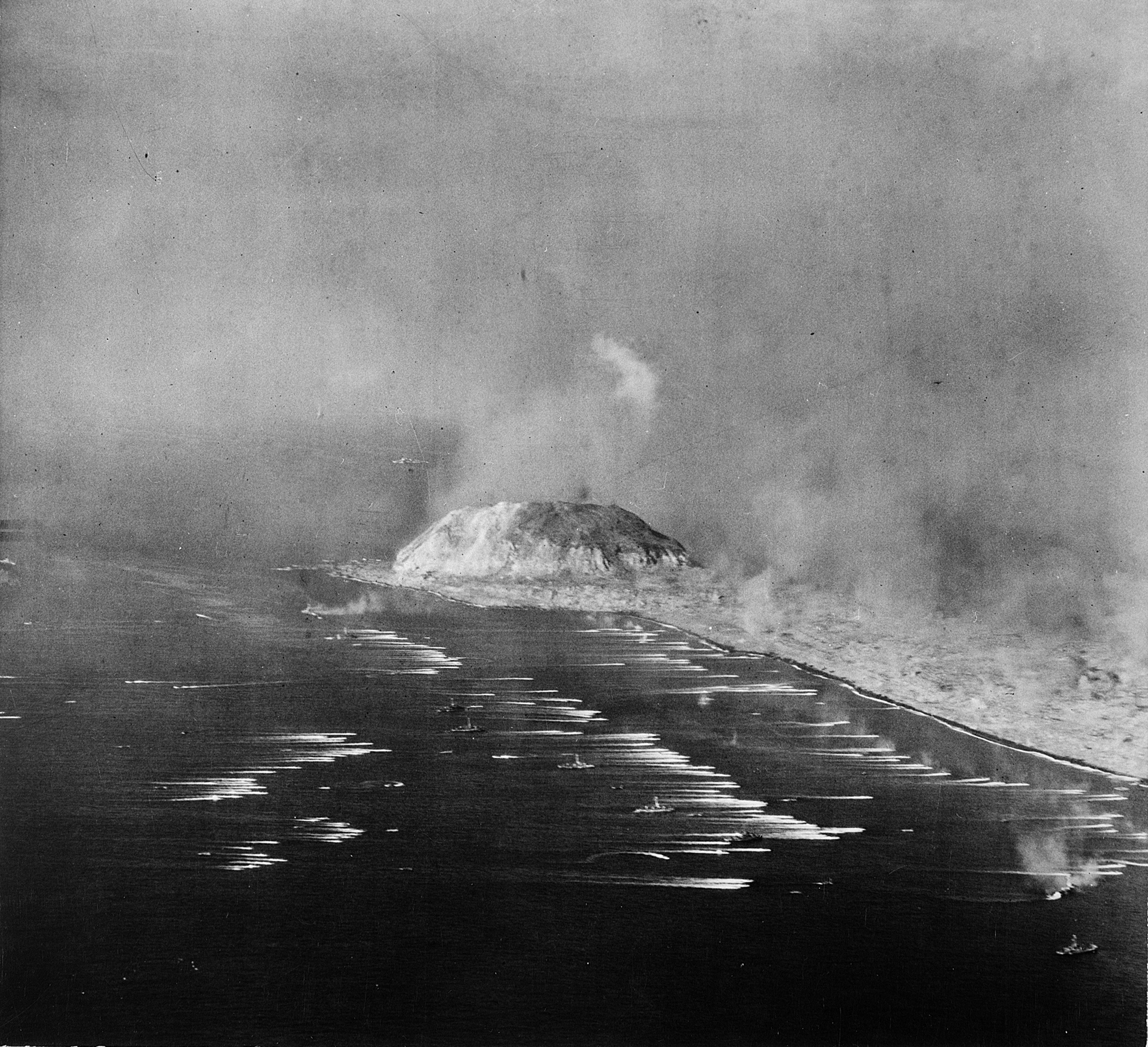 Fifth Fleet during invasion of Iwo Jima. Mount Suribachi in background.